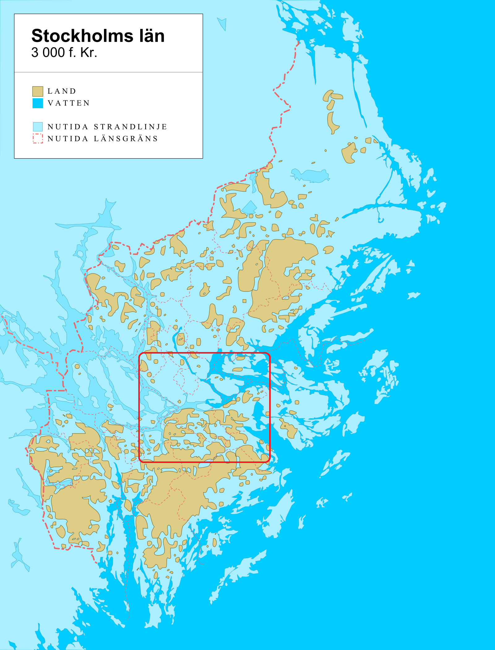 The Stockholm area, around 3000 years BC (5 000 BP). The map shows post-glacial rebound and shoreline displacement in comparison with present-day Stockholm county. The extent of land at the time (yellow) was smaller than today, with water (blue tones) covering areas that are above the shoreline today. Present-day shorelines, county and municipality borders shown for comparison.